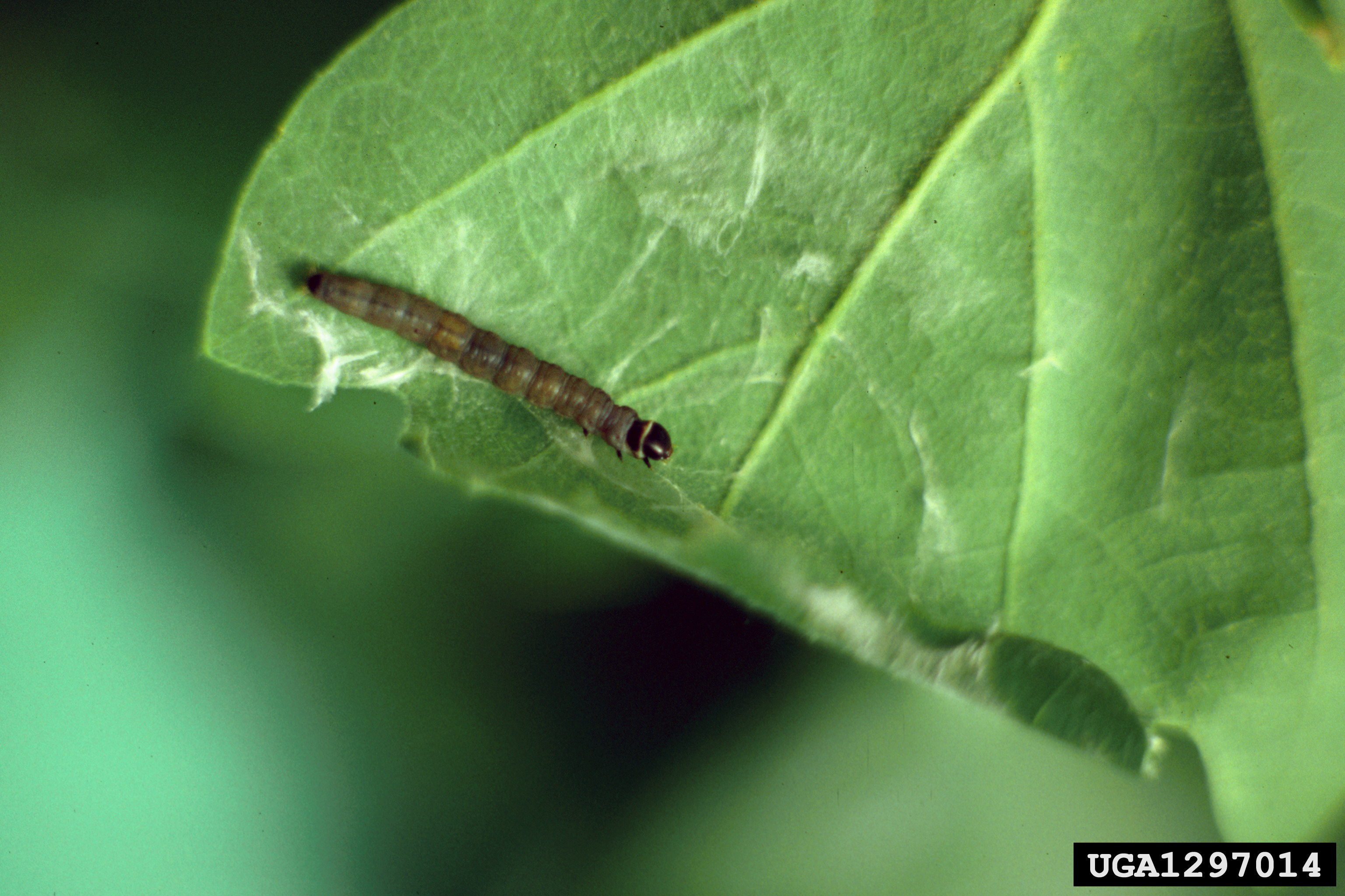 Caterpillar of Archips xylosteana